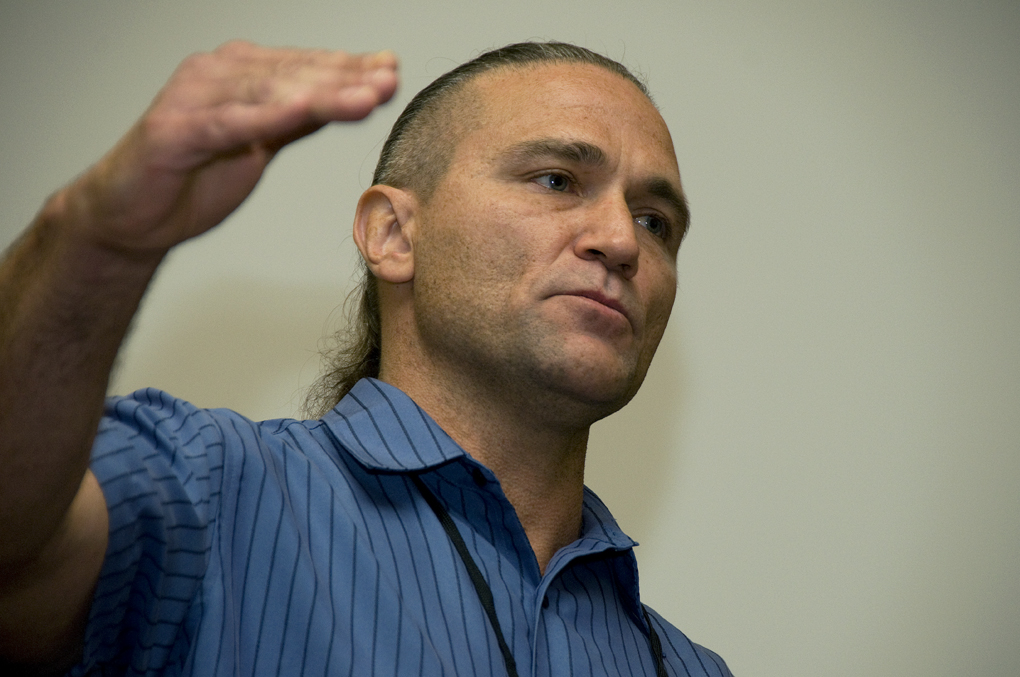 Dave Dahl of Dave's Killer Bread explains what it's like to go from the prison world to the corporate world.